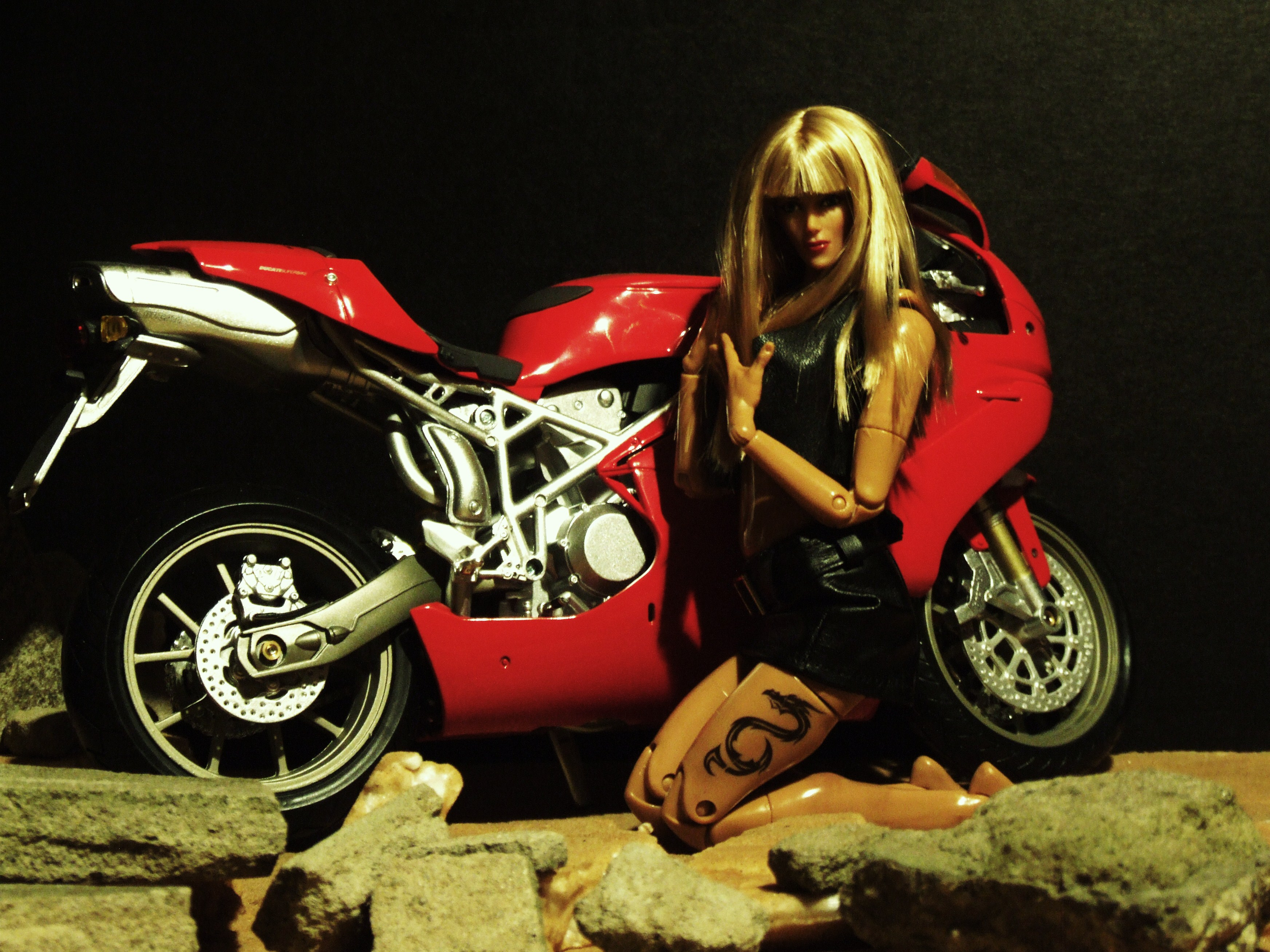 Amazing how many ppl think this is real looking at the icon..... ;-)